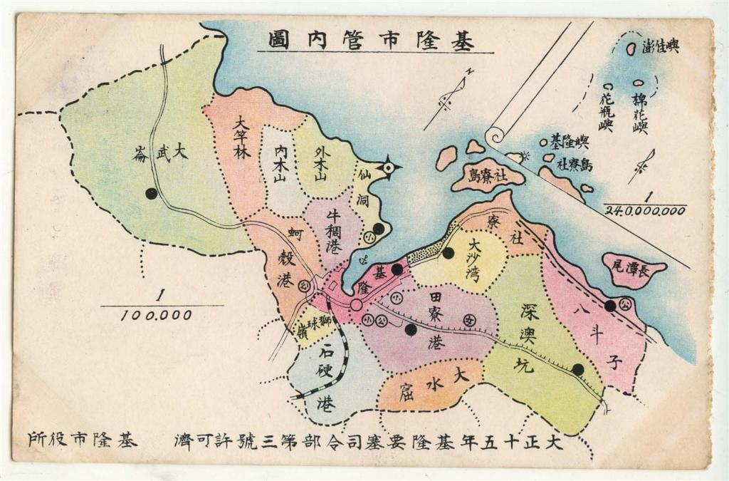 map of Kiirun(Keelung) City